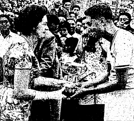 Lady Turner presenting a cup to Benny Omar, captain of the Emergency Unit, Hong Kong Auxilllary Police, winners of the interdivisional "E.C. van Helden" miniature soccer contest for the fourth consecutive year.